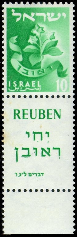 Tribes stamp - 10 mil - Reuben. Second definitive series. Inscription on tab: "Let Reuben live..." Deuteronomy XXXIII, 6.